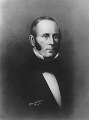 James Semple, former U.S. senator from Illinois